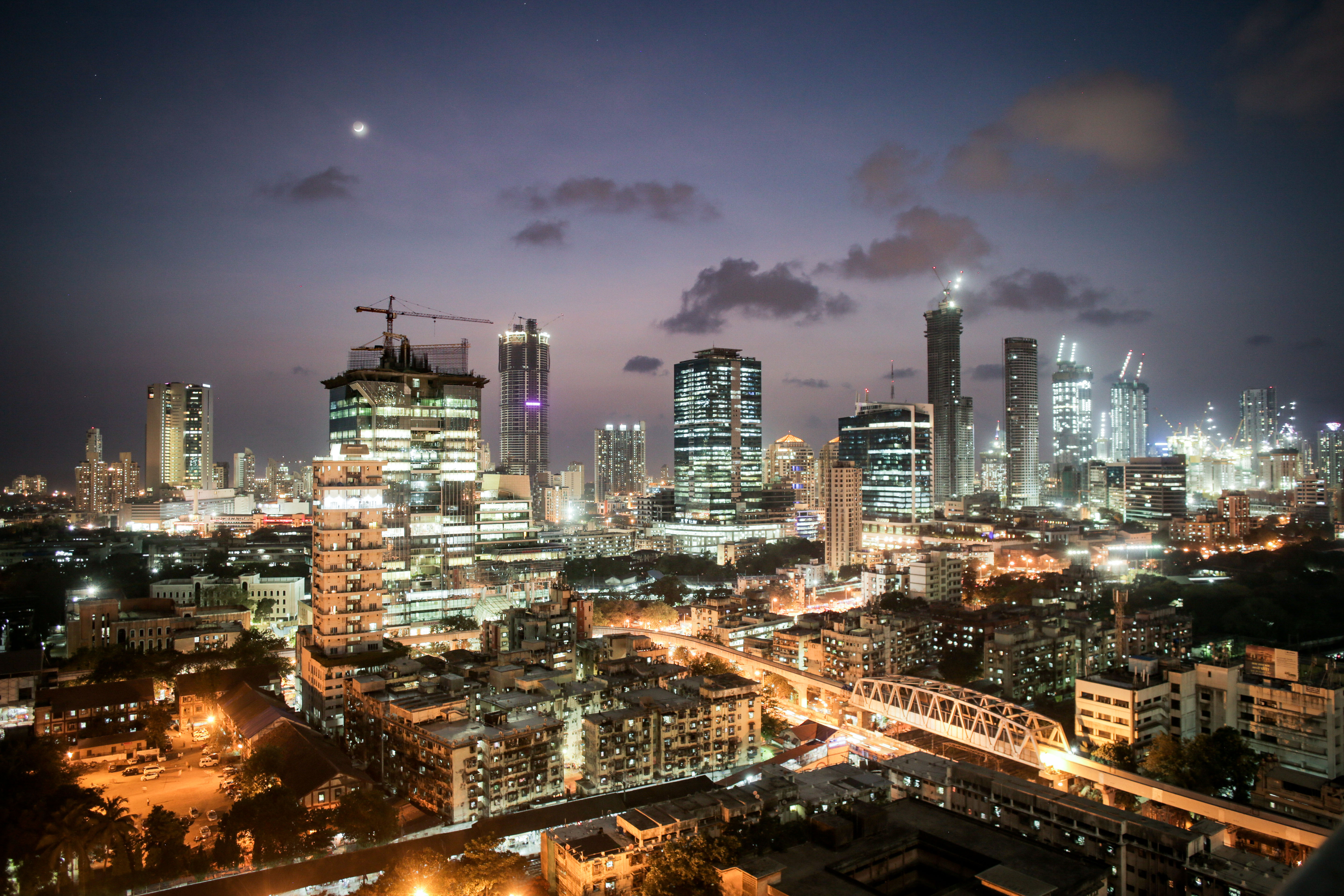 Night view of Mumbai, India. Photo published by Ville Hyvönen under the title "timelapse_telecine_reference_20160607-YV7A8202".